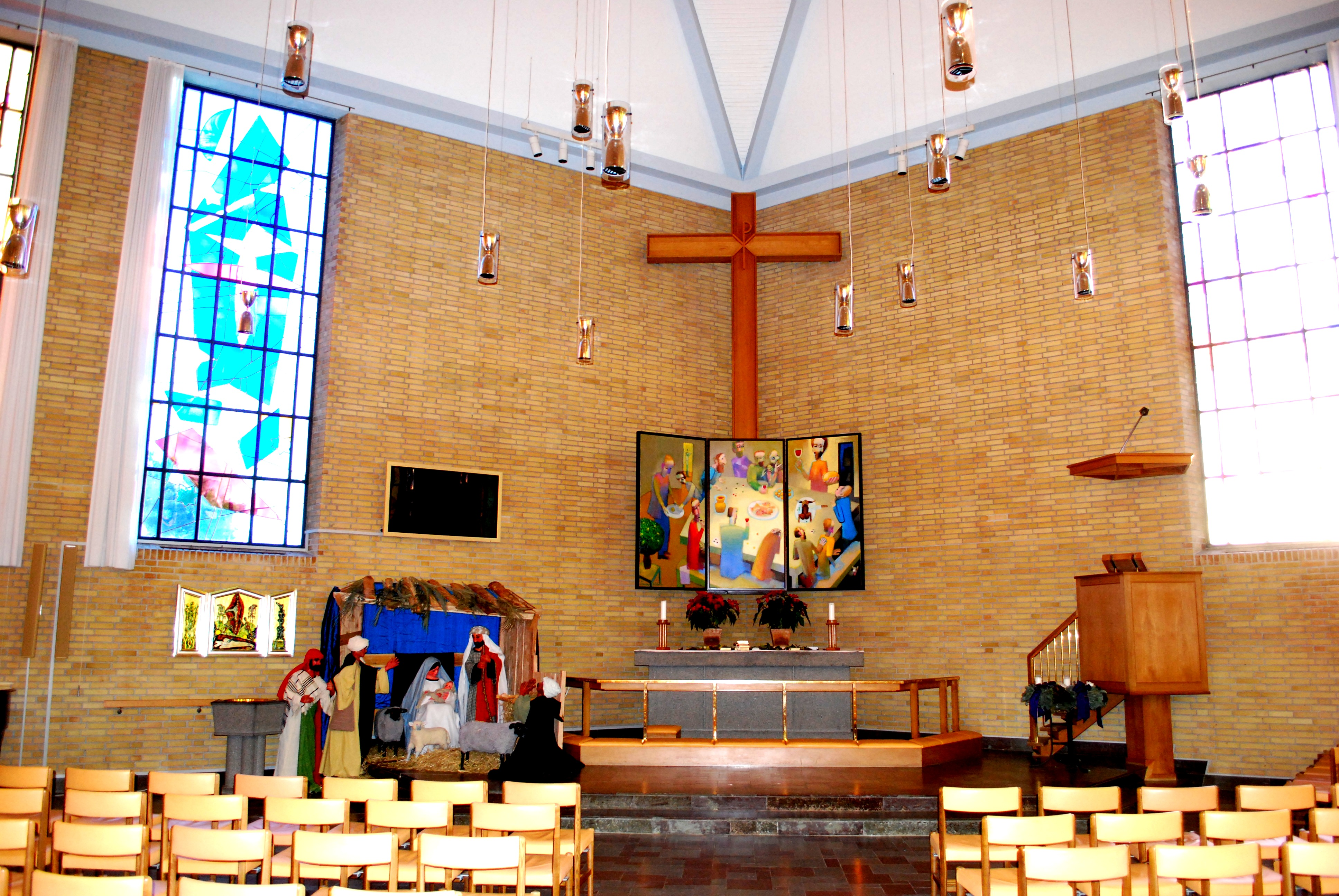 Sorgenfri Kirke,Virum, Copenhagen